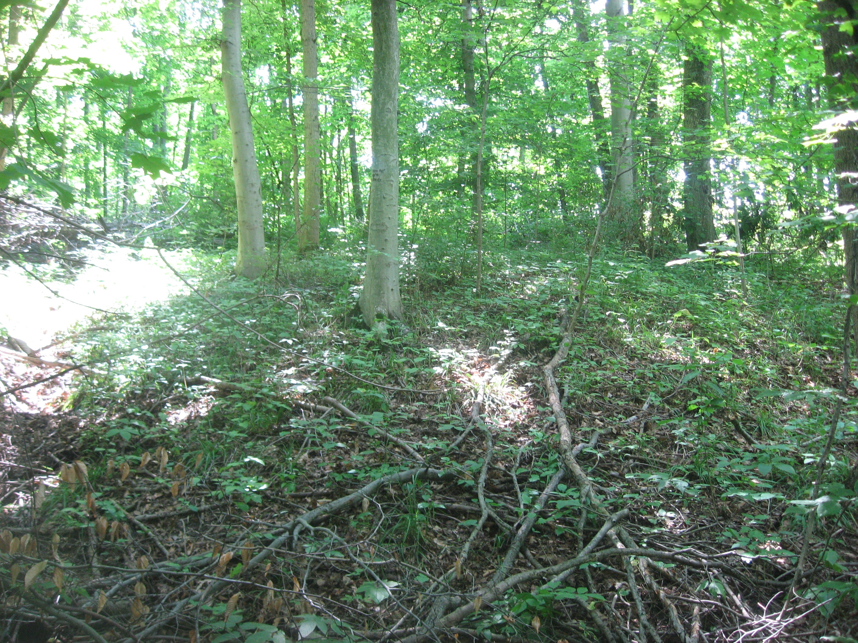 Overview of the Hillside Haven Mound, located along a walking trail at Thousand Trails Campground in Adams Township, Clinton County, Ohio, United States. Built by Adenan peoples but reduced by erosion and excavation, the mound is an important archaeological site and has been listed on the National Register of Historic Places.